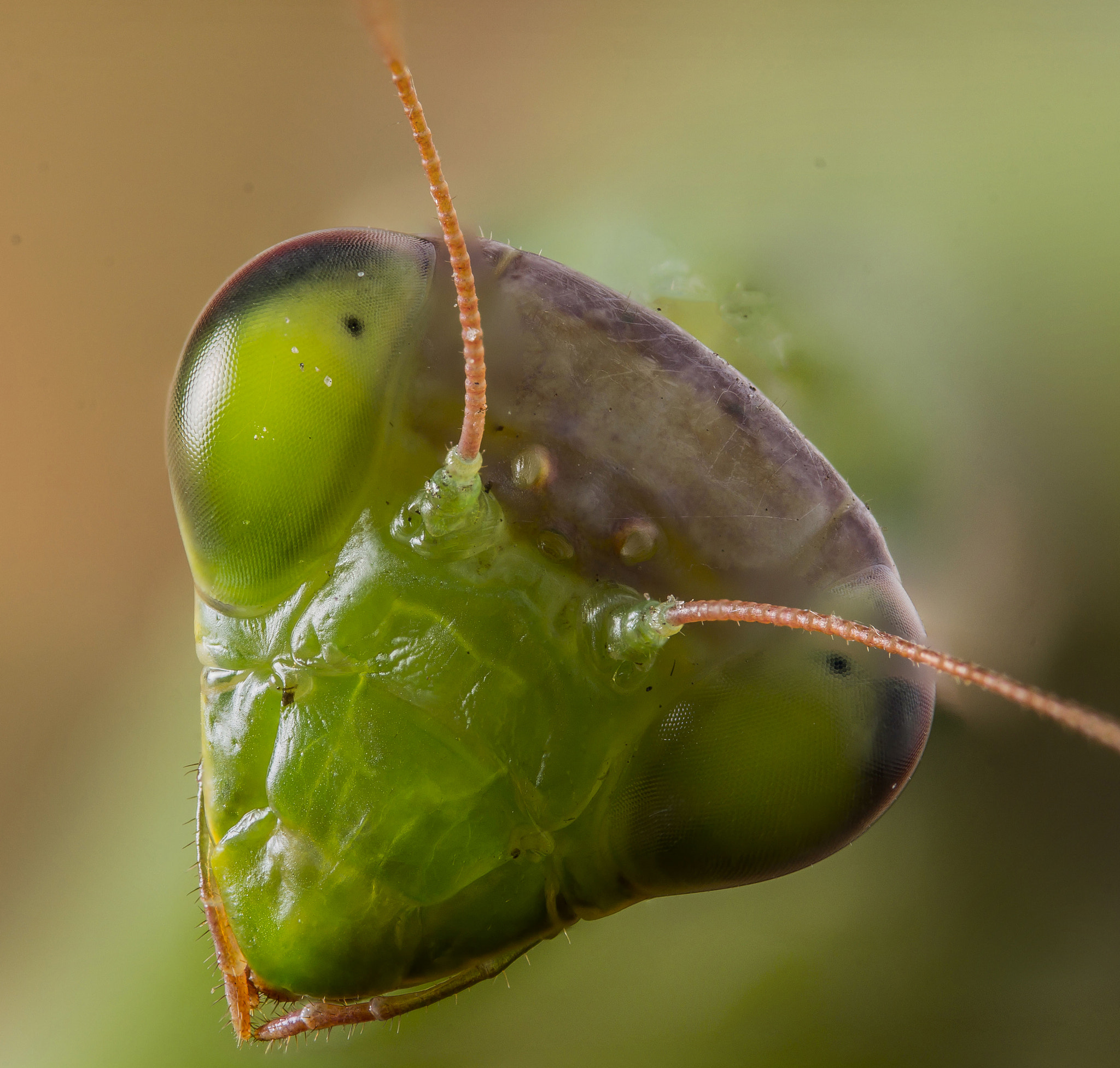 500px provided description: Stacked from 20 photos Used extension tubes and Raynox DCR-250 ~ 3.8:1 magnification [#macro ,#canon ,#stacked ,#im?dkoz? s?ska ,#praying matis]